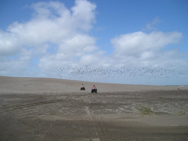 Argentina. Villa Gesell. Dunas. Enduro